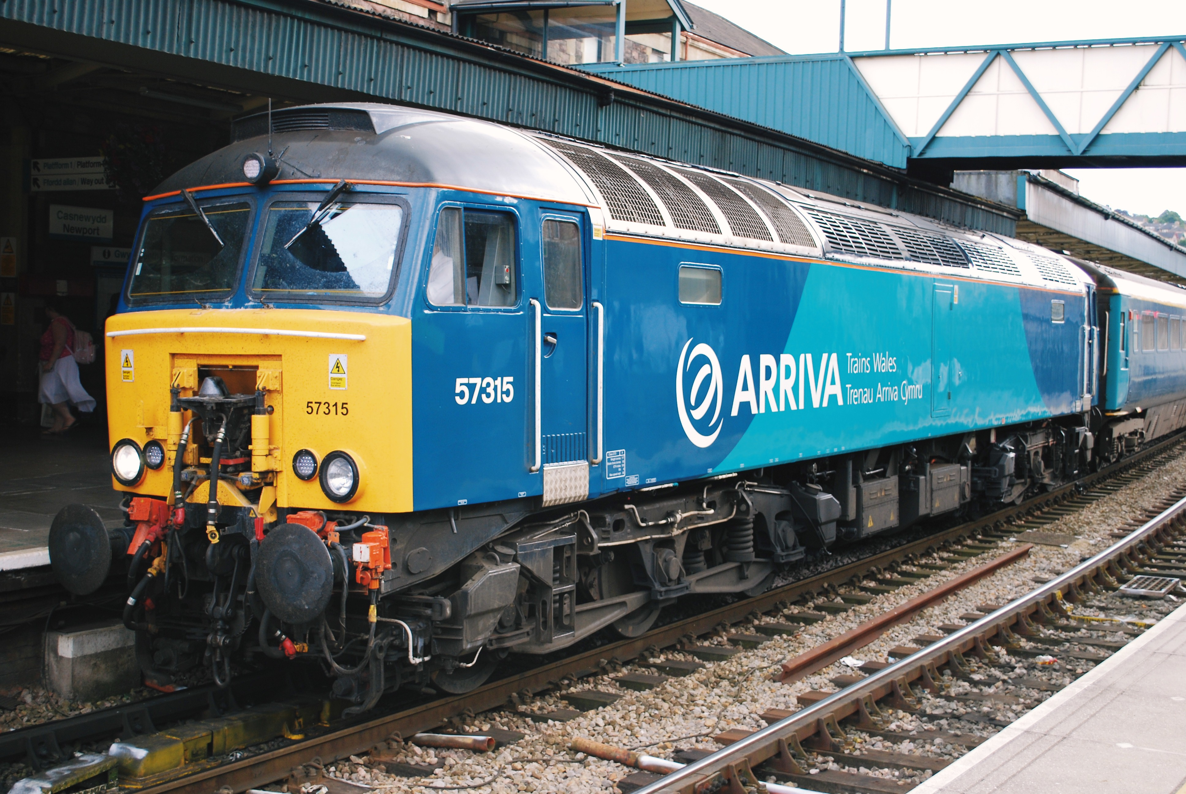 Brush Clas 57 2,500 hp Co-Co No.57 315 (ex-47 234;D1911) (ex-The Mole) in ATW branded two-tone blue livery at Newport on a Cardiff-Holyhead service, 6/09.